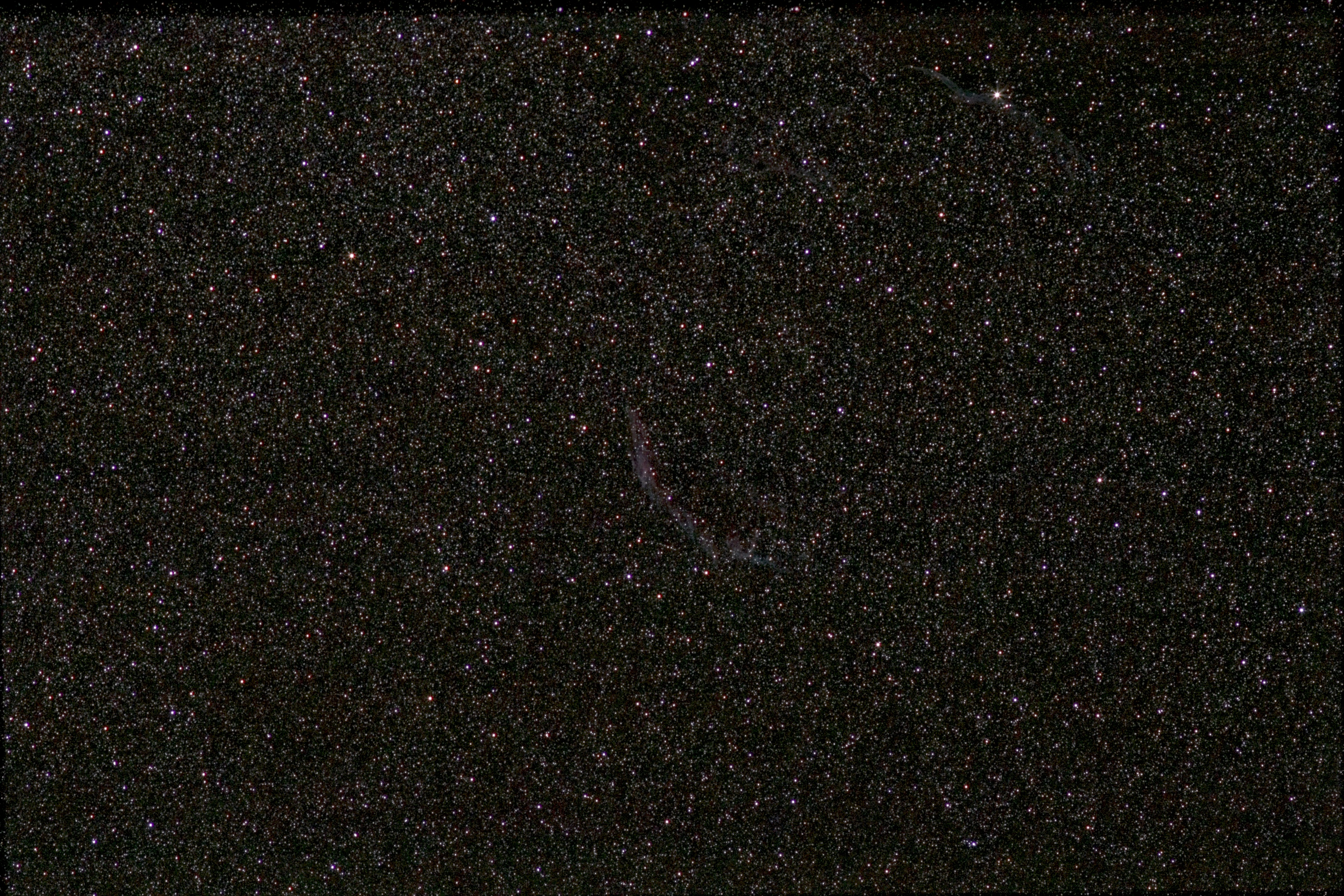 NGC 6992 (Eastern Veil Nebula - center) and NGC 6960 (Western Veil Nebula - upper right) photographed from a dark site.